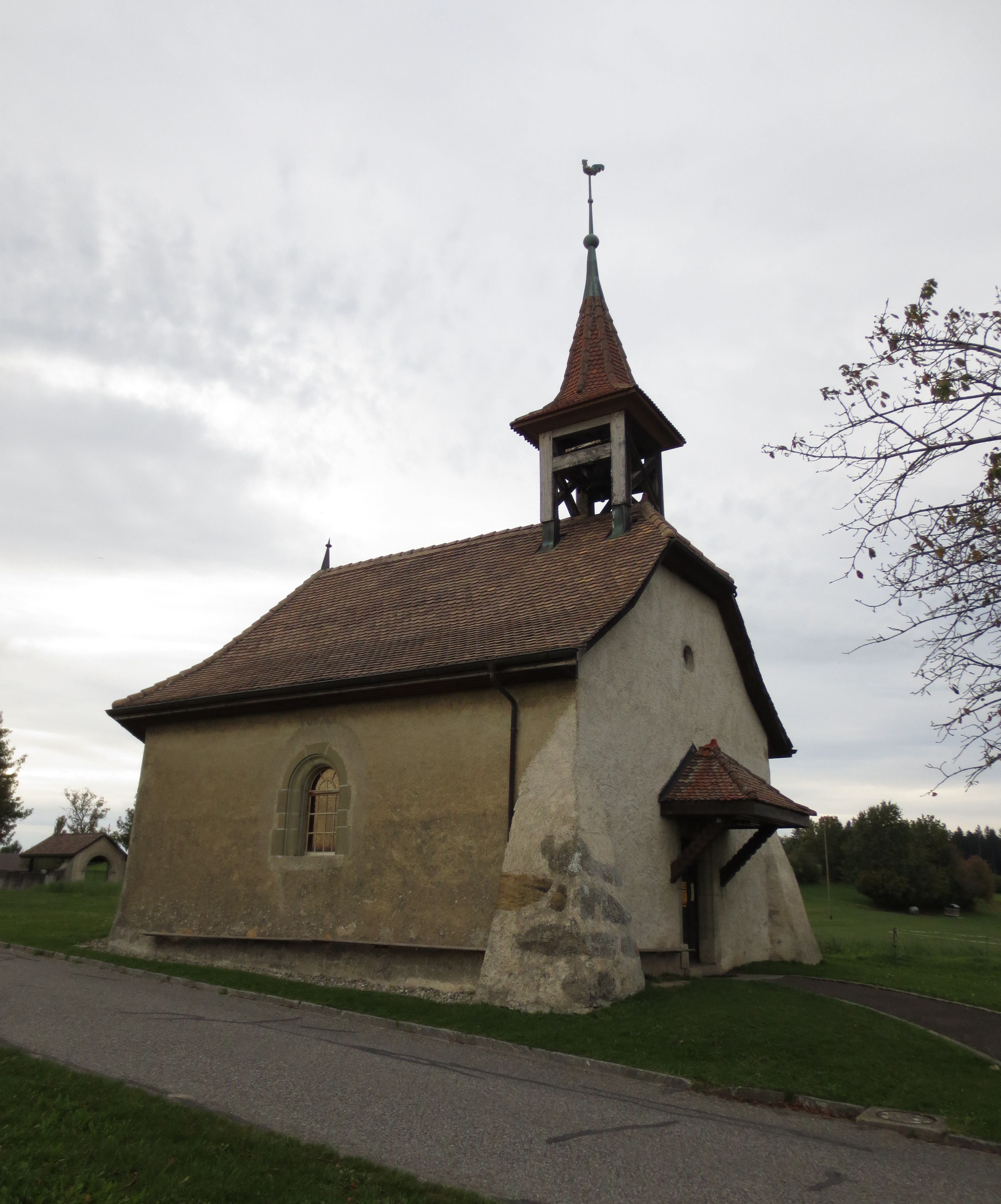 Vucherens church, Canton of Vaud, Switzerland